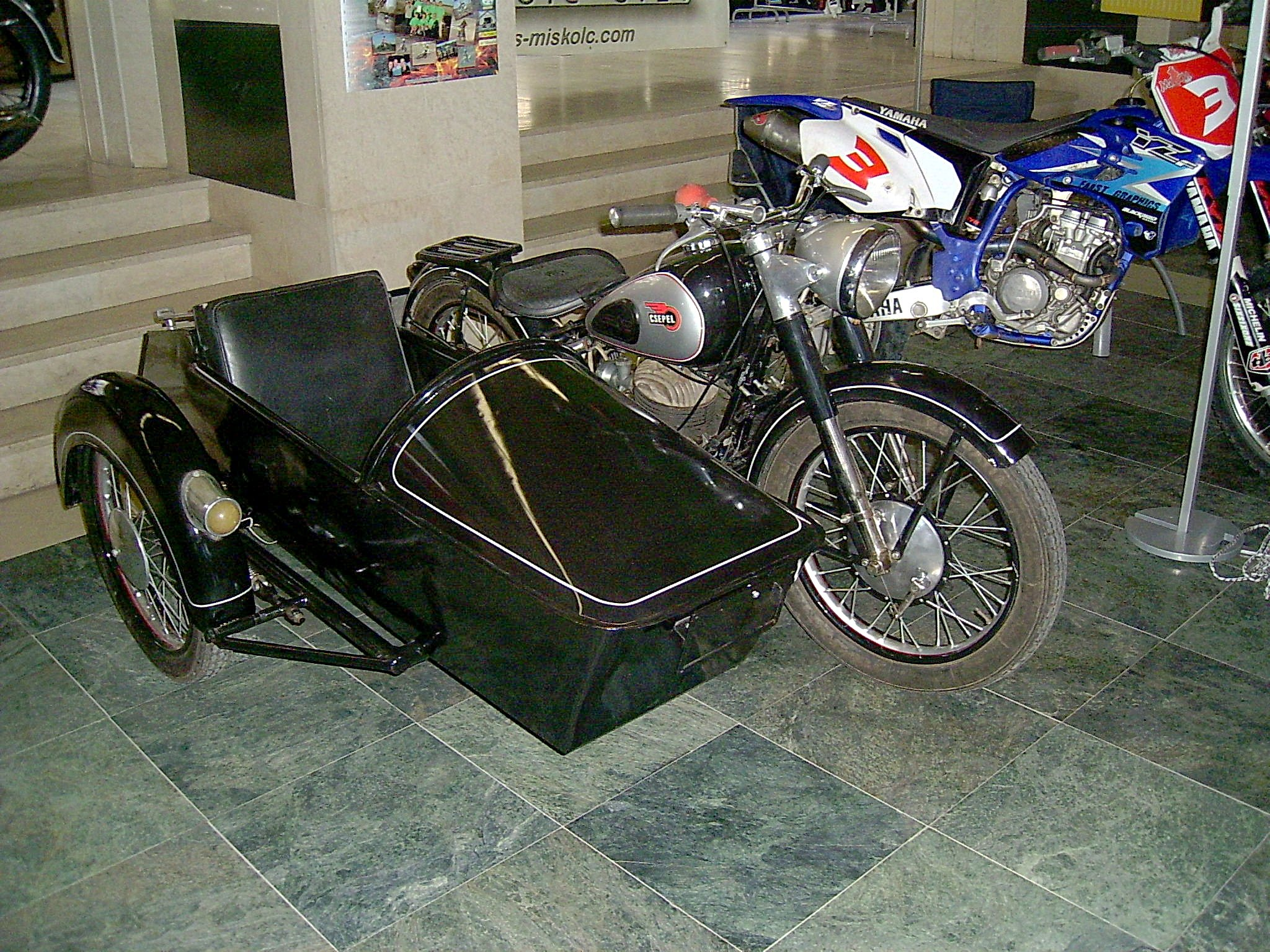 A Hungarian motorbike called Csepel 250/51 EF with a sidecar from the Hungarian Szentesi manufacture. Both the bike and the sidecar was made in the early '50s.